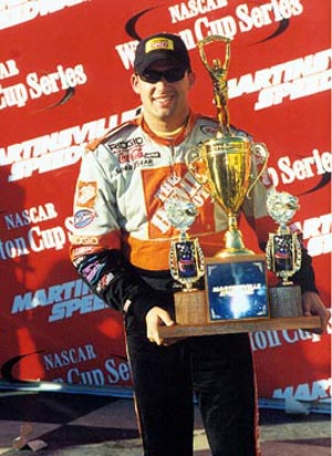 Martinsville, VA, October 1, 2000 -- Tony Stewart, driver of the #20 Joe Gibbs-owned Home Depot Pontiac and Project Impact spokesperson, celebrates his win following the NAPA Auto Care 500. Stewart's NASCAR Winston Cup Series win at Martinsville is his fifth victory this season. Photo by Kevin Thorne/ FEMA News Photo